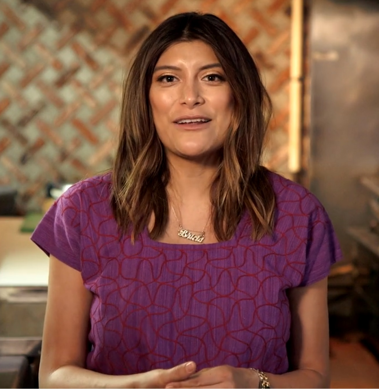 Restaurateur Bricia Lopez, owner of Guelaguetza, interviewed in 2015 by the Library Foundation of Los Angeles.